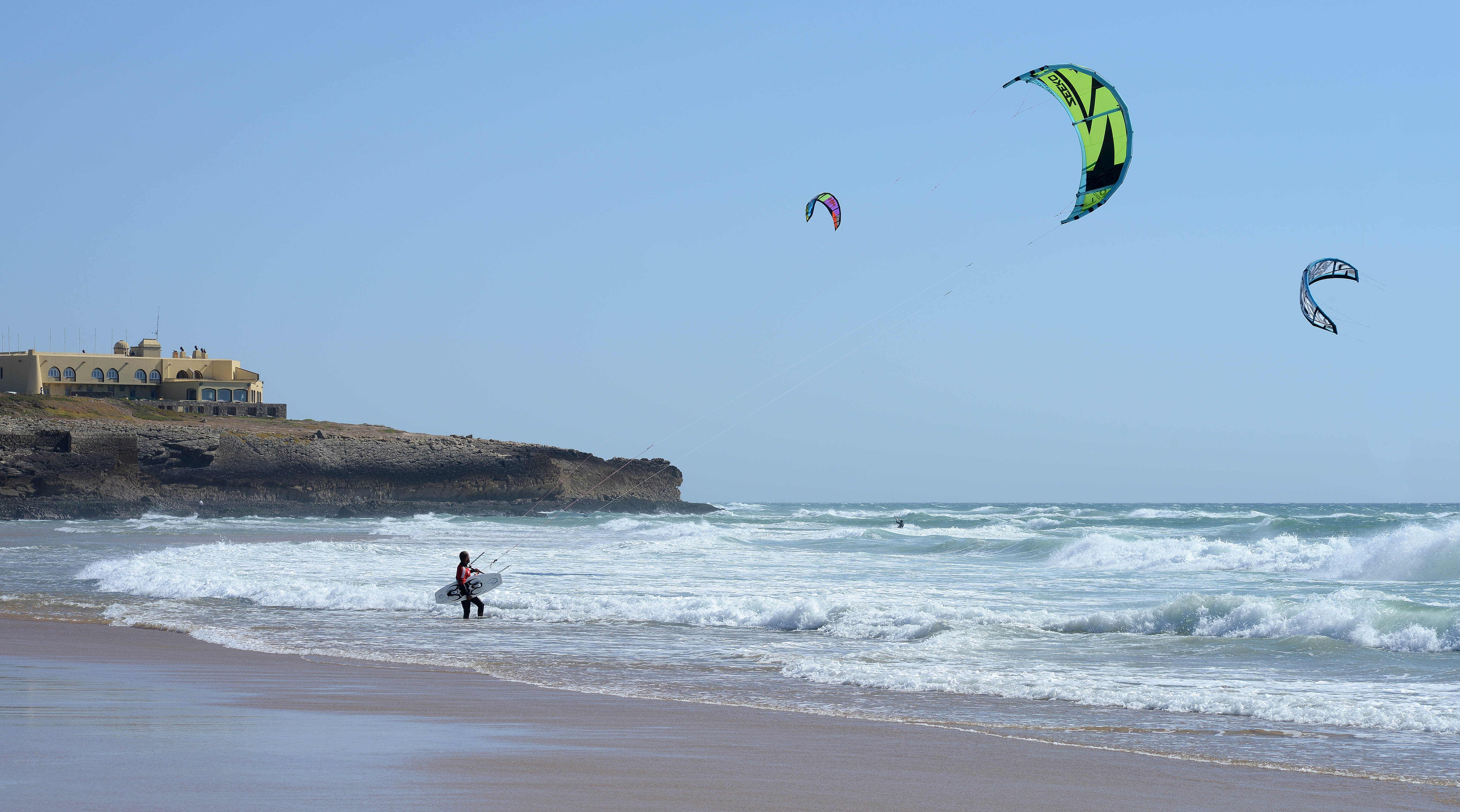 Kite surfing at Guincho Beach, Portugal